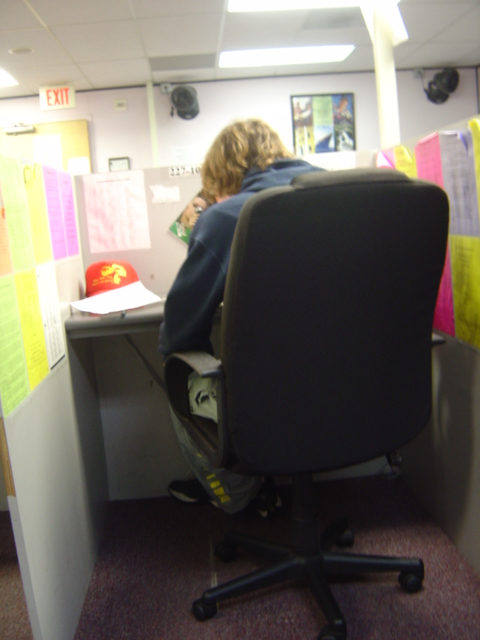 Picture originally uploaded to Wikipedia English